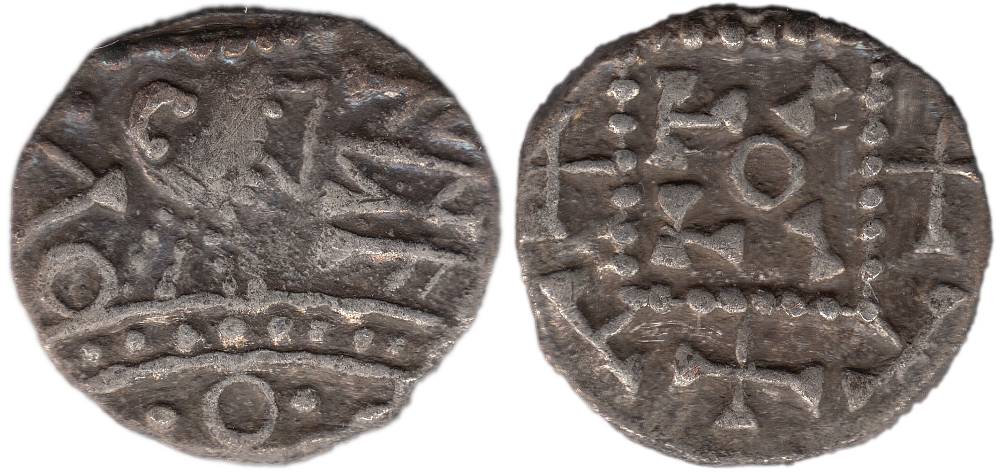 Anglo-Saxon silver sceat, Series C, Class C2, East Anglia